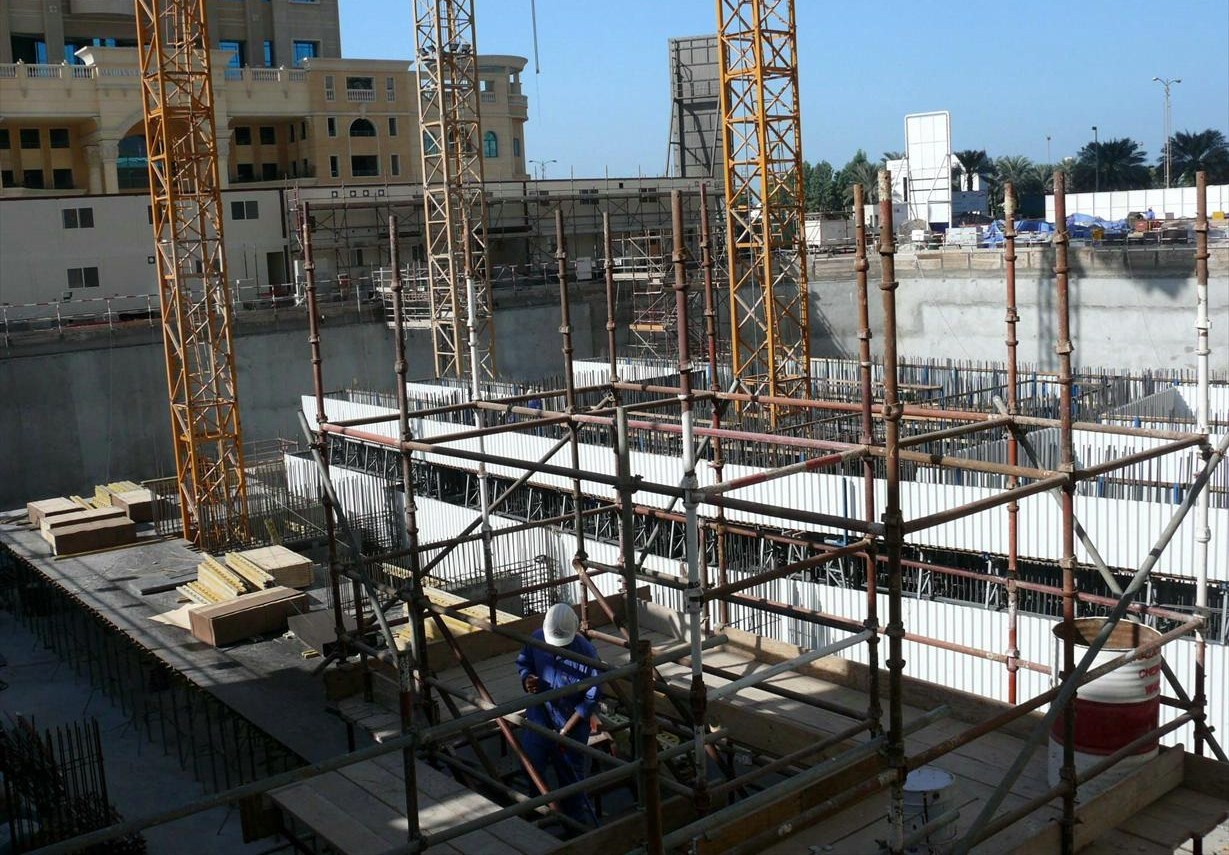 This is a photo showing the construction of Ocean Heights, located in Dubai Marina in Dubai, United Arab Emirates, on 20 December 2007.